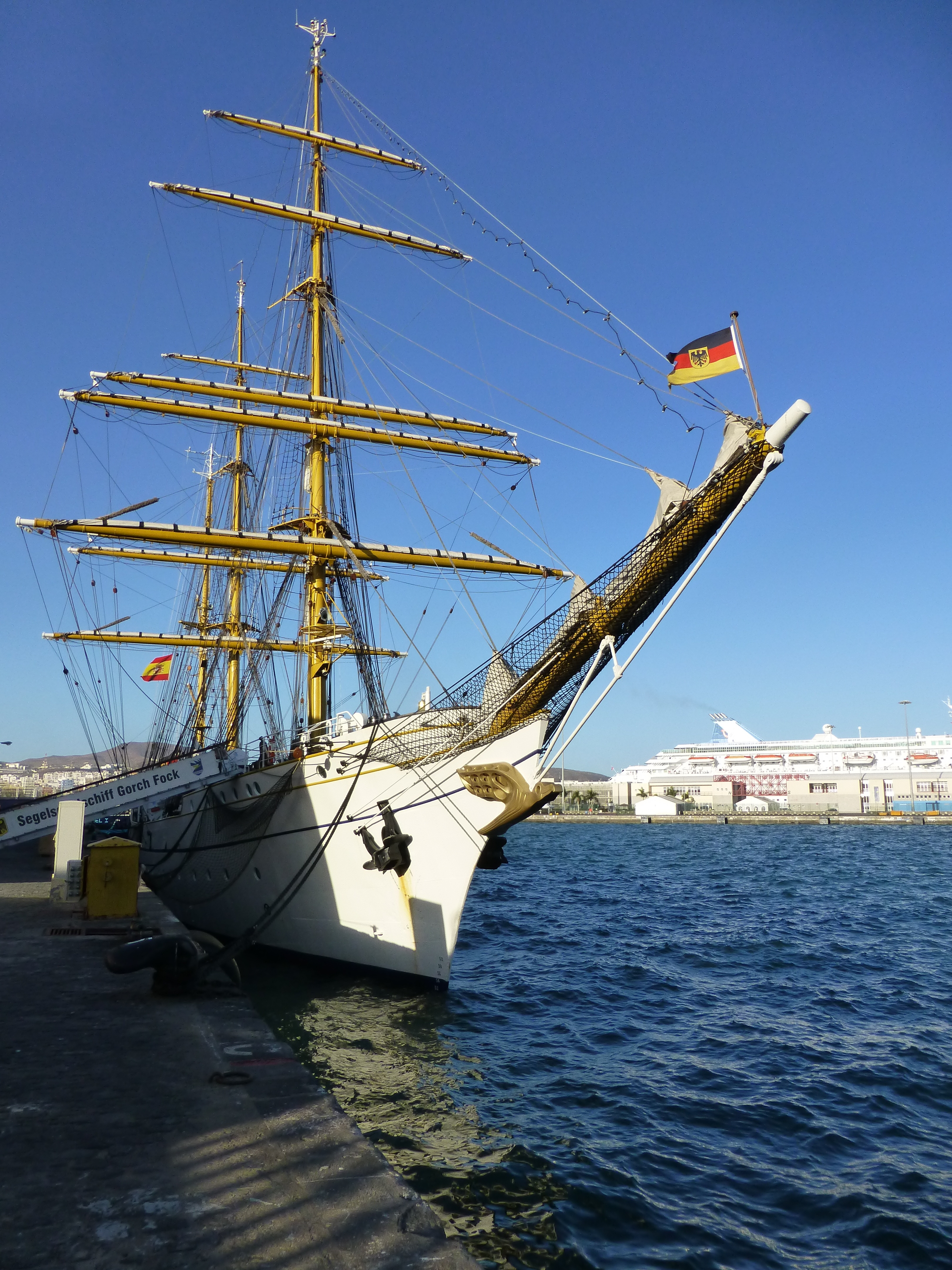 The Gorch Fock (1958) is a tall ship of the German Navy (Deutsche Marine). She is the second ship of that name and a sister ship of the Gorch Fock built in 1933. Both ships are named in honour of the German writer Johann Kinau who wrote under the pseudonym "Gorch Fock".